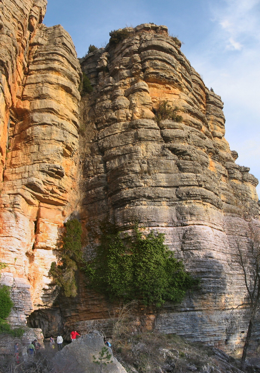 Villa de Vés Formation. Upper Cenomanian (Upper Cretaceous). La Toba, Cuenca, Spain